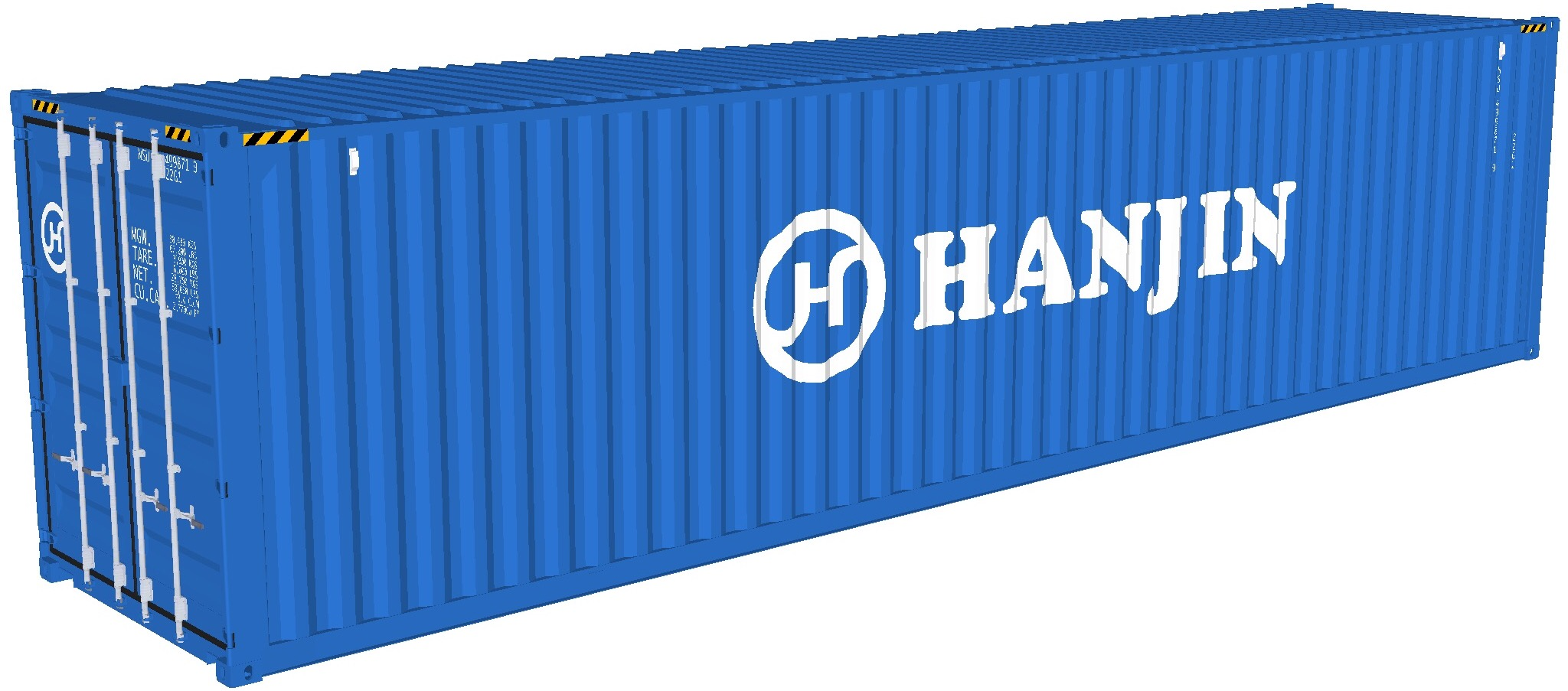 HANJIN 40 foot container